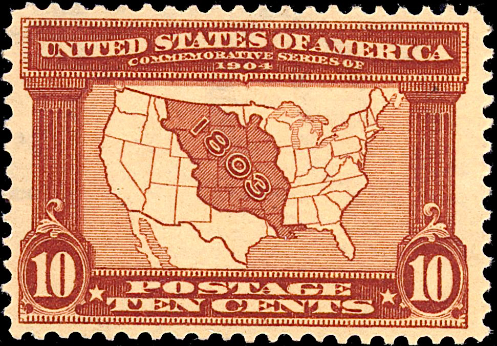 Louisiana_Purchase_1904_Issue-10.jpg